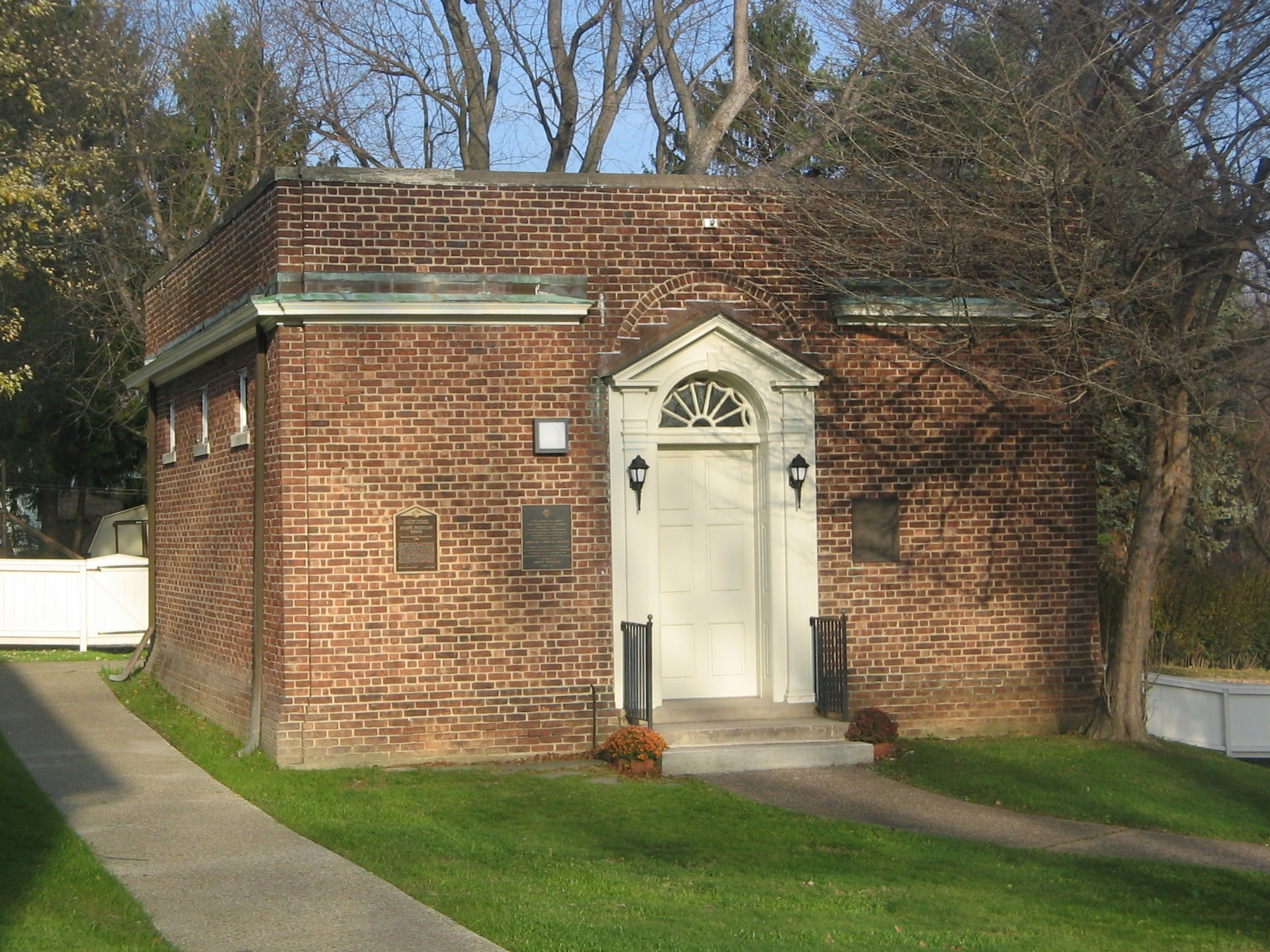 1926 brick Gilbert Pond Museum at the Joseph Priestley House in Northumberland, Northumberland County, Pennsylvania, USA. Note three commemorative plaques: National Historic Chemical Landmark, American Chemical Society centennial, and memorial to Professor Gilbert Pond (left to right).